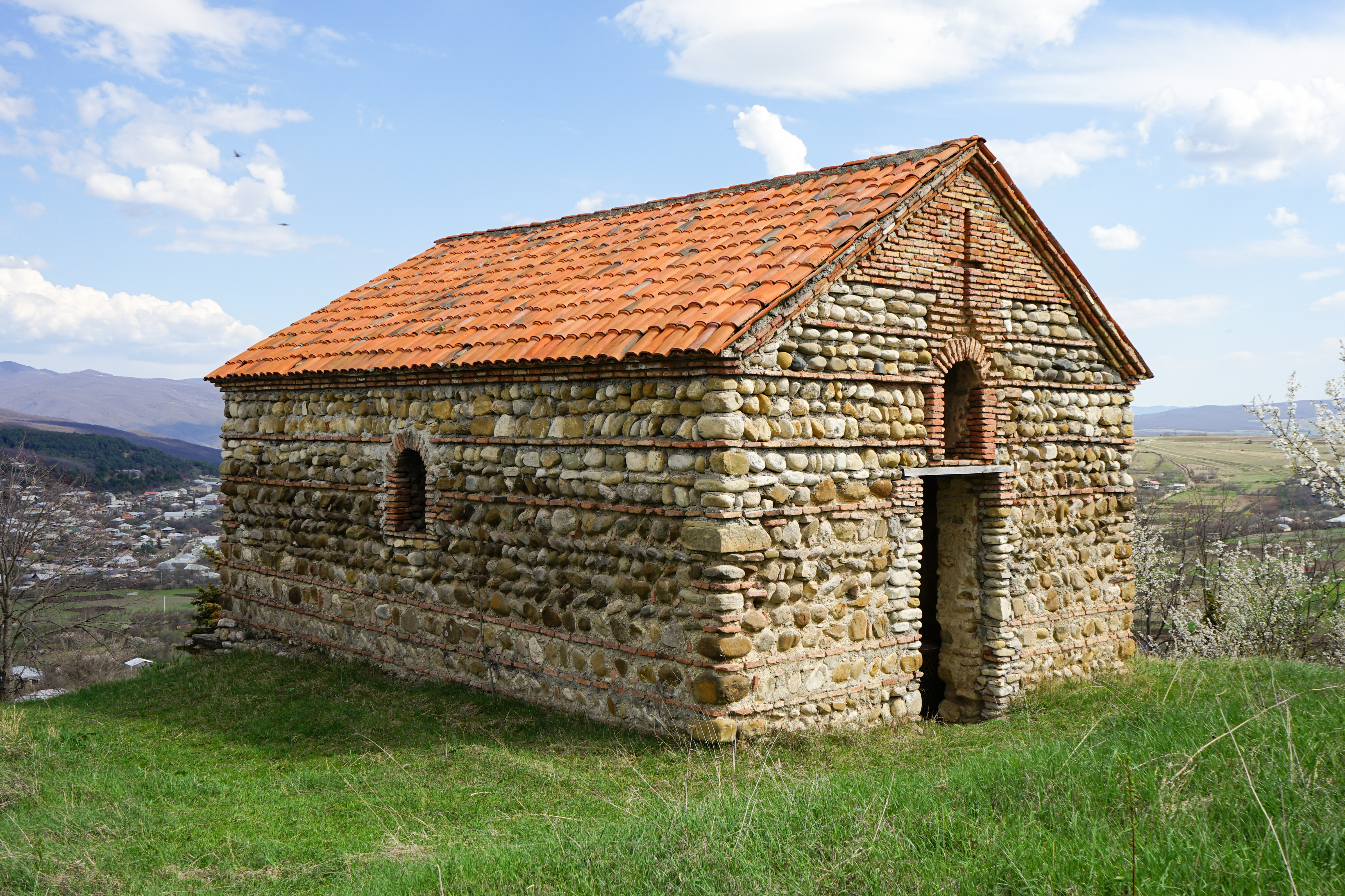 Amilakhvriantkari Church (XVIII c.), Dusheti, Georgia